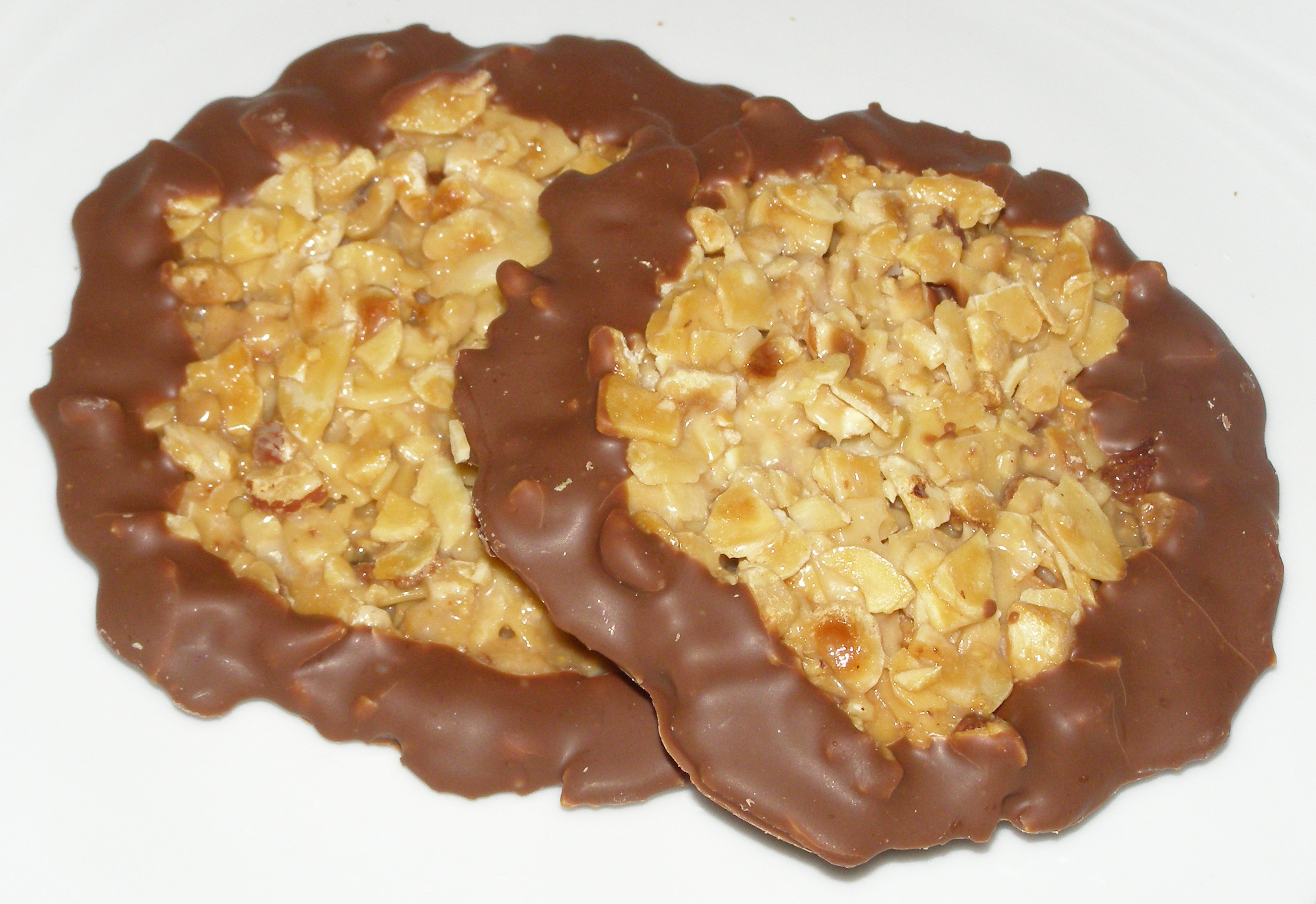 Florentine biscuits from a supermarket